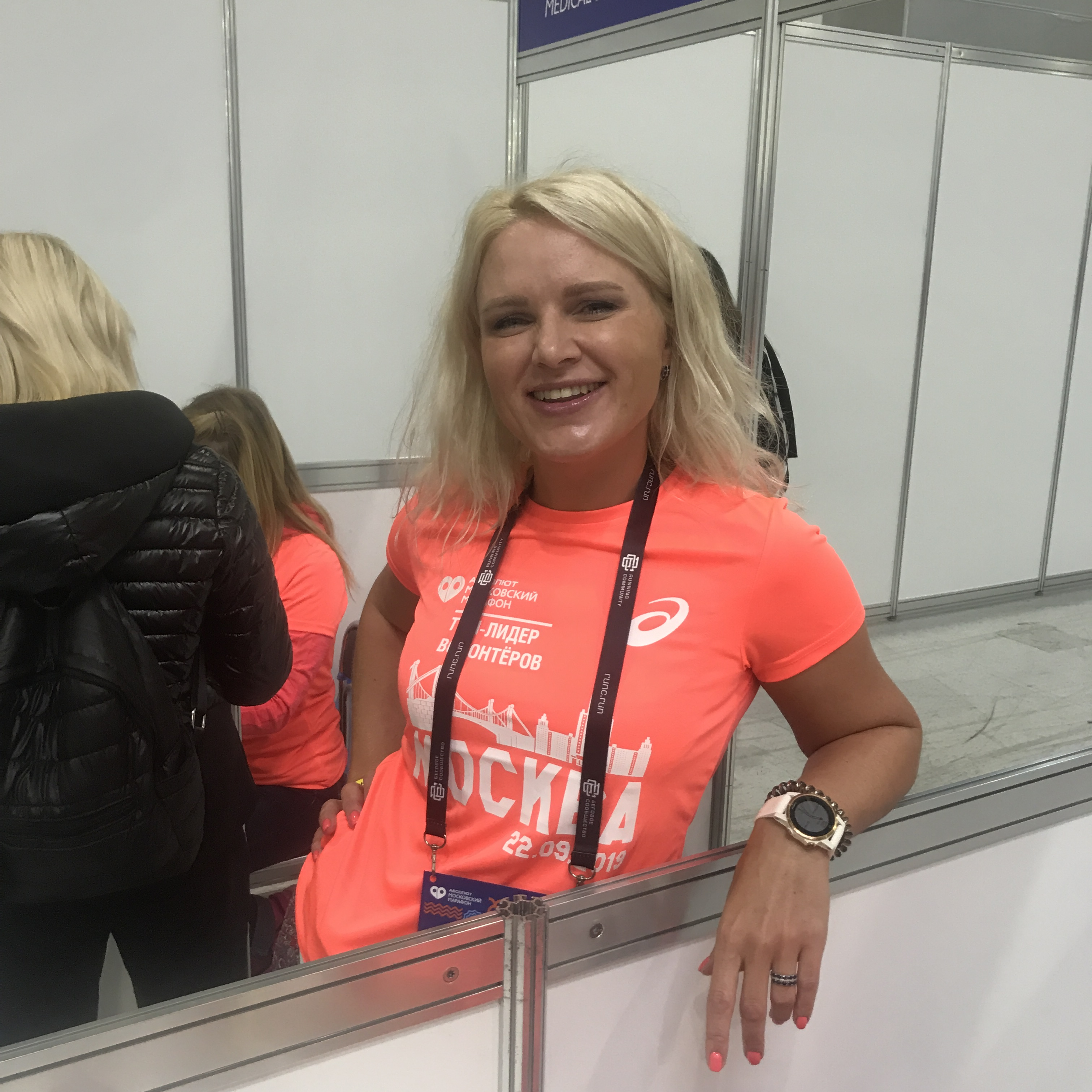 Volunteer EXPO Moscow Marathon